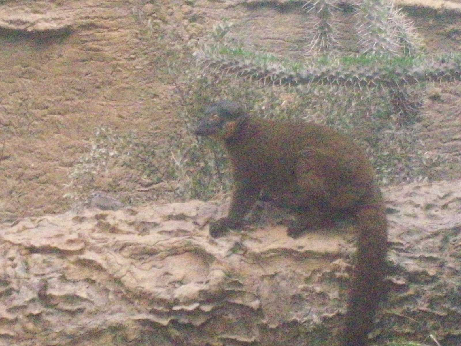 Collared Brown Lemur at Madagascar Exhibit at Bronx Zoo